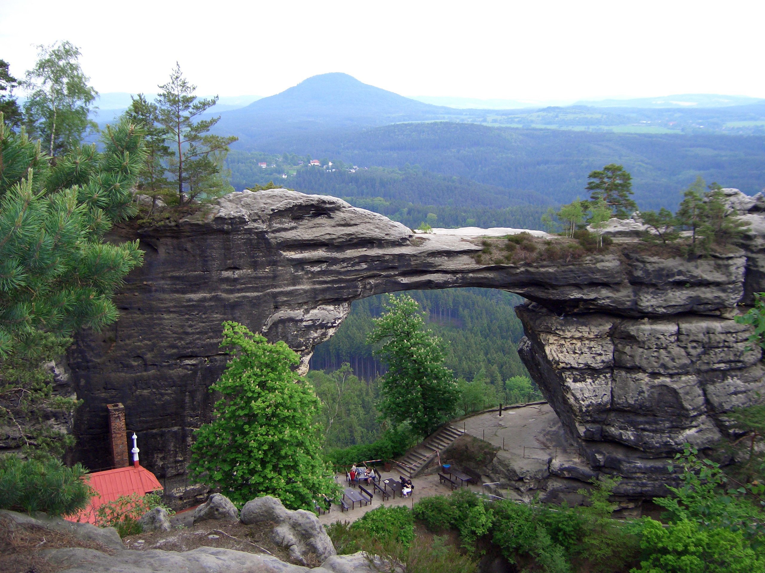 The sandstone arch of the Pravčická brána (Pravčič’s Gate) and the house of 'Sokolí hnízdo' (Eyrie of the Falcon), near the town of Hřensko: landmark and sign of the České Švýcarsko (Bohemian Switzerland).